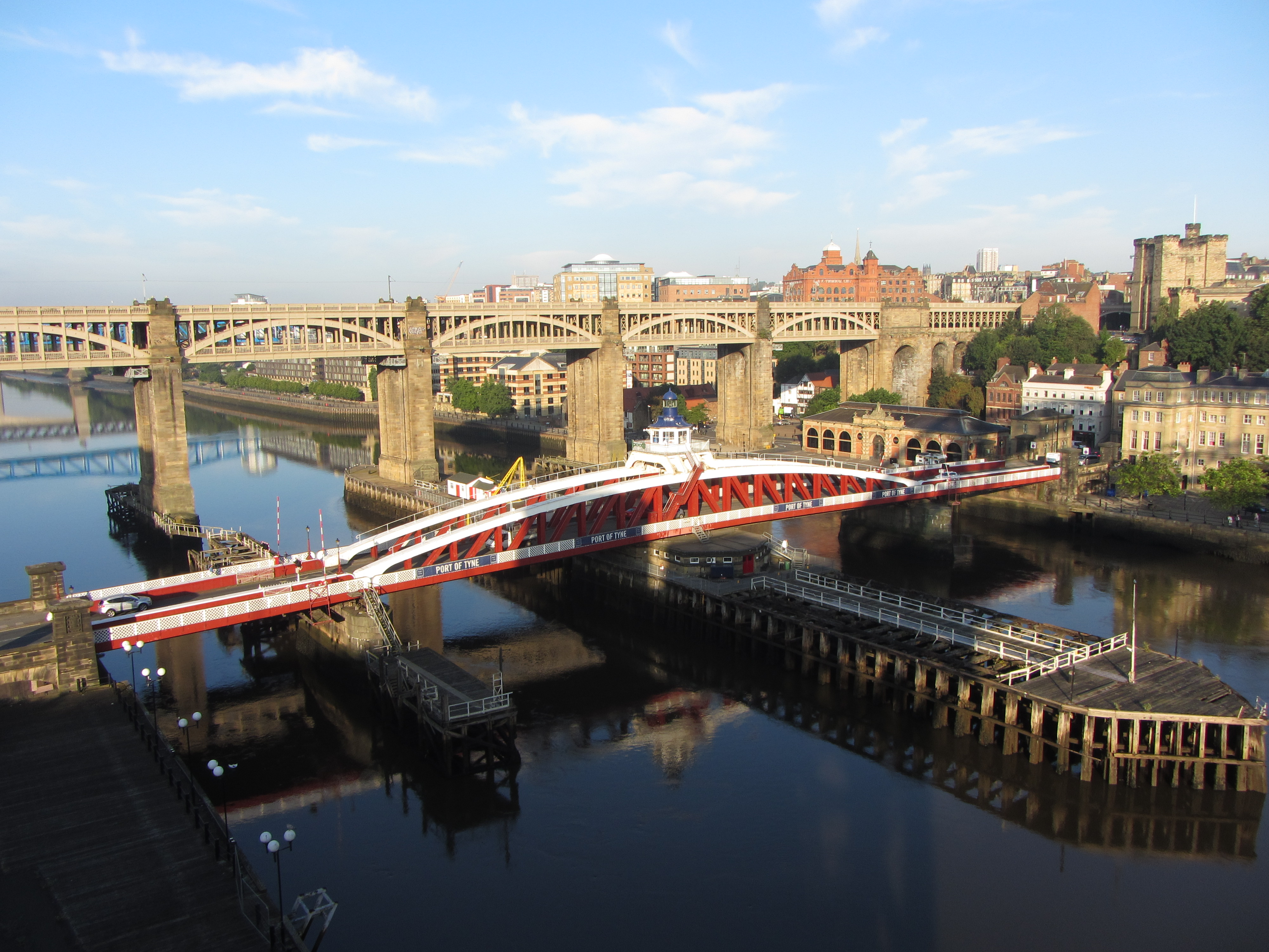 High-level and Swing Bridges, Newcastle